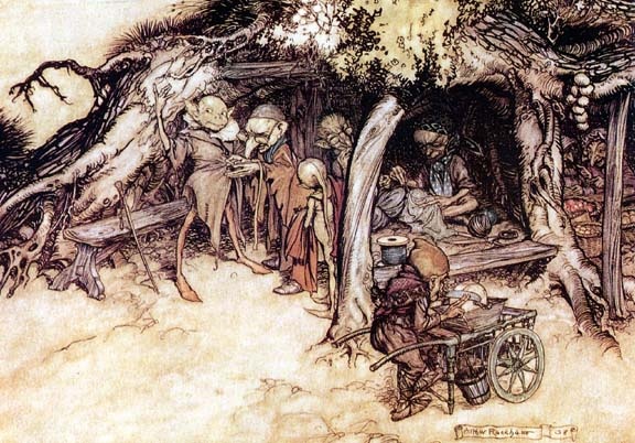 "To make my small elves coats." Illustrations to Shakespeare's A Midsummer Night's Dream.